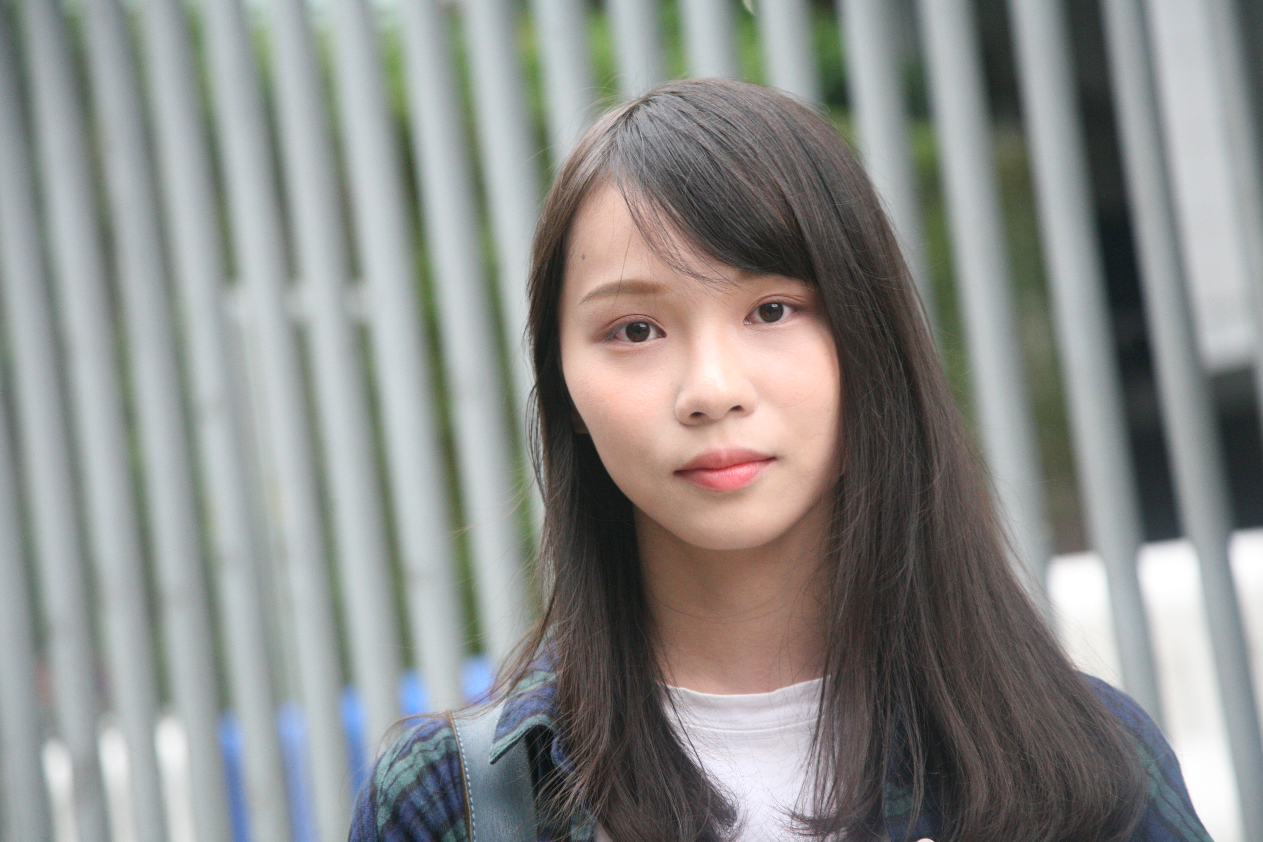 Agnes Chow on Tim Mei Avenue. 粵語: 周庭喺添美道。